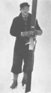 Birger Ruud